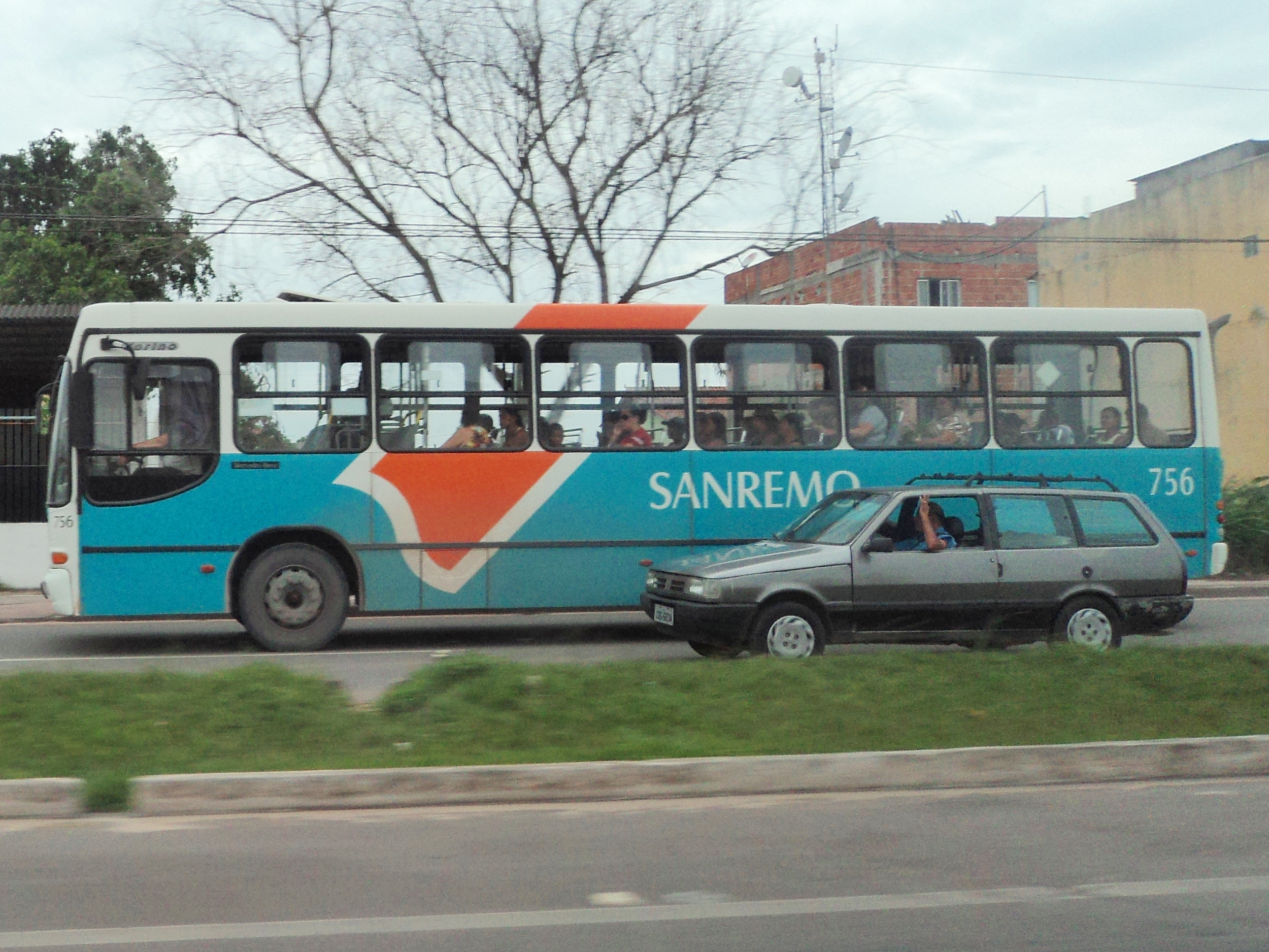 Marcopolo Torino intercity bus (#756) with Mercedes-Benz chassis of the Sanremo operator in Vila Velha, Espírito Santo state, Brazil.